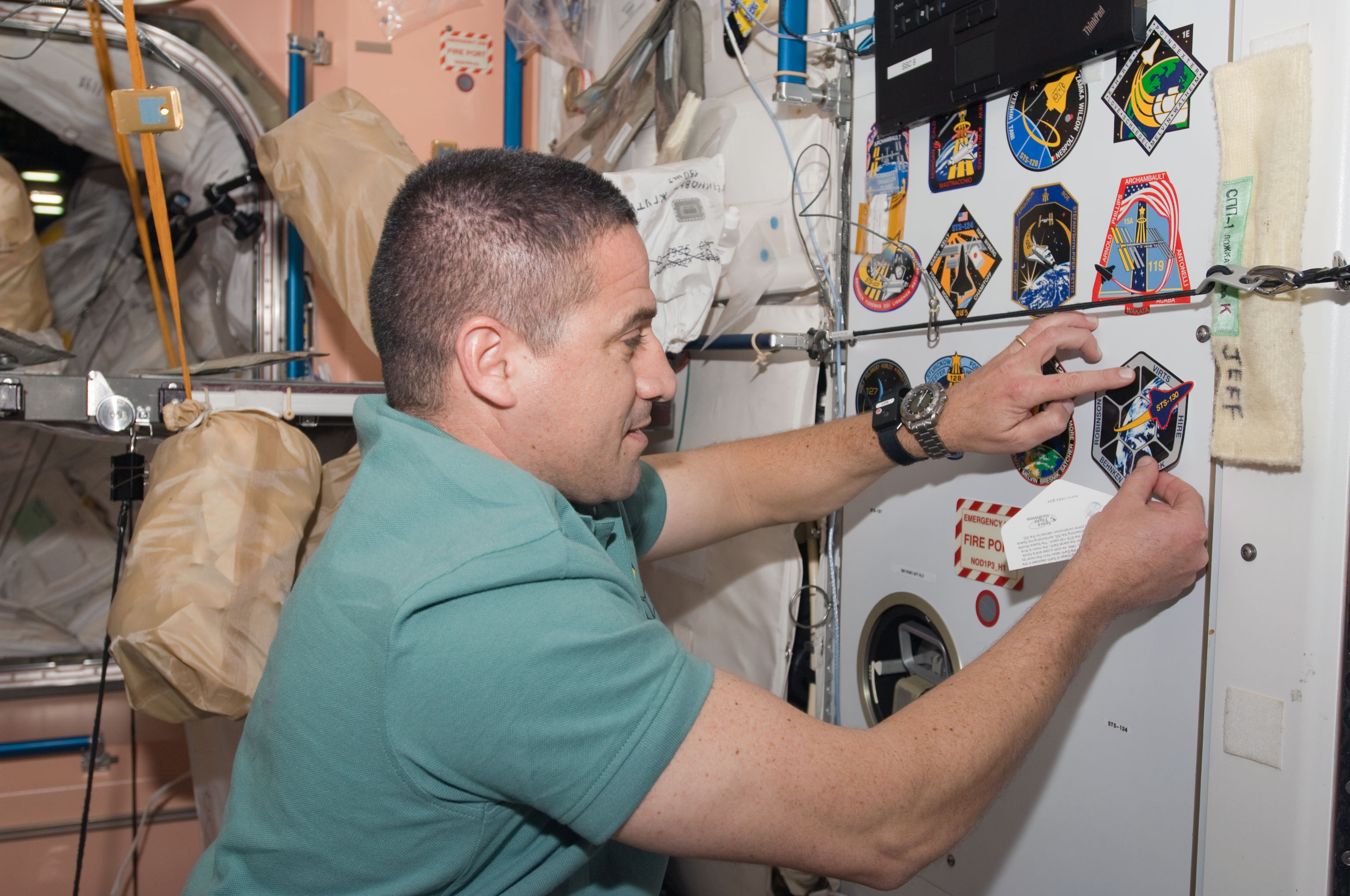 NASA astronaut George Zamka, STS-130 commander, adds his crew's patch to the growing collection, in the Unity node, of insignias representing crews who have worked on the International Space Station.